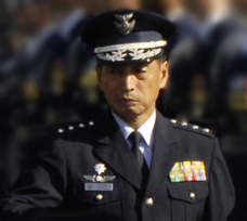 Chief of Staff of the Air Self-Defense Force Toshio Tamogami perform a pass and review of the troops with Chief of Staff of the Air Force Norton A. Schwartz and Captain of the Air Force Honor Guard Peter Mask at the Air Force Memorial in Arlington, Virginia on August 19, 2008.